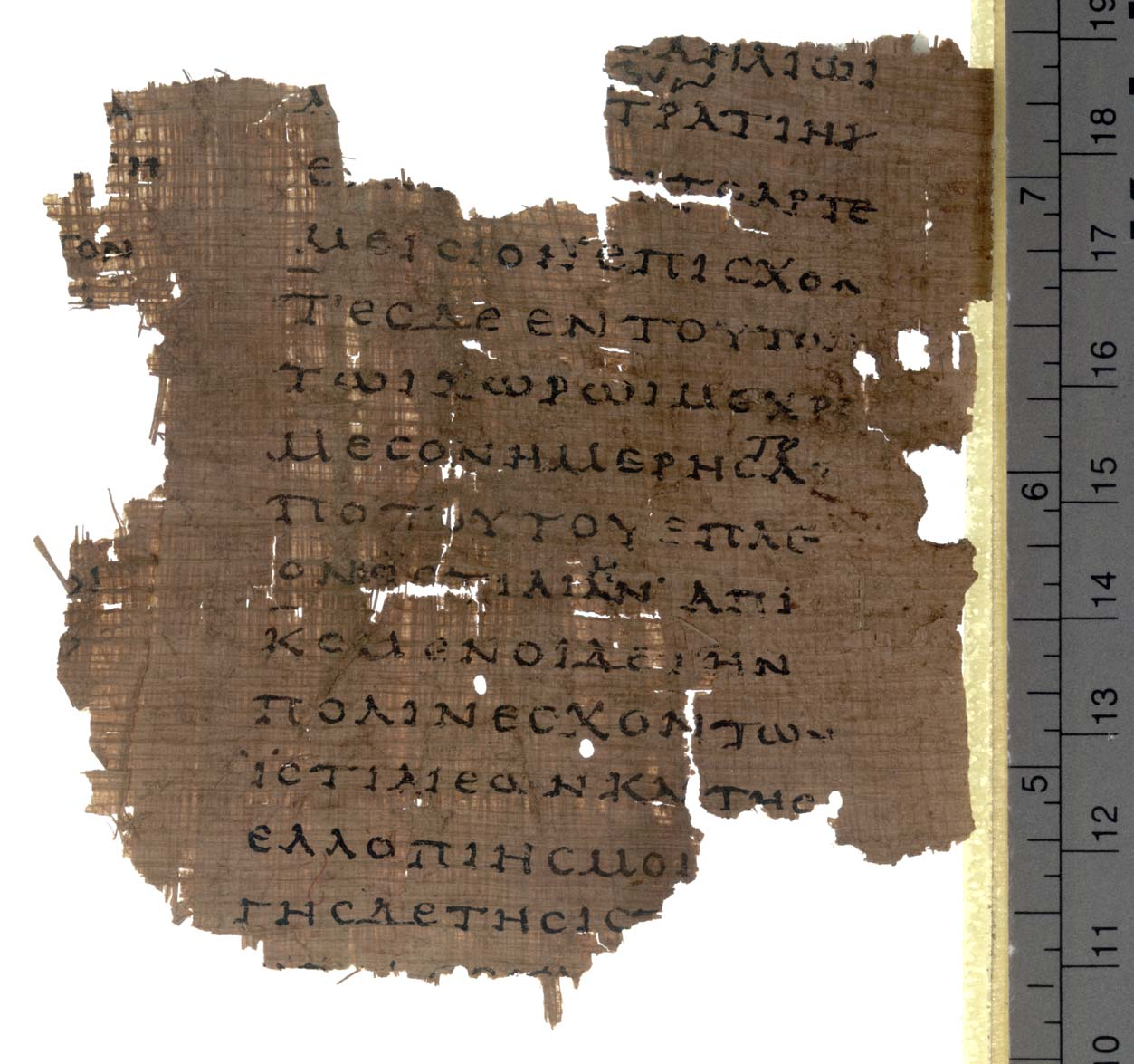 Fragment from Herodotus' Histories, Book VIII on Papyrus Oxyrhynchus 2099, dated to early 2nd century AD.